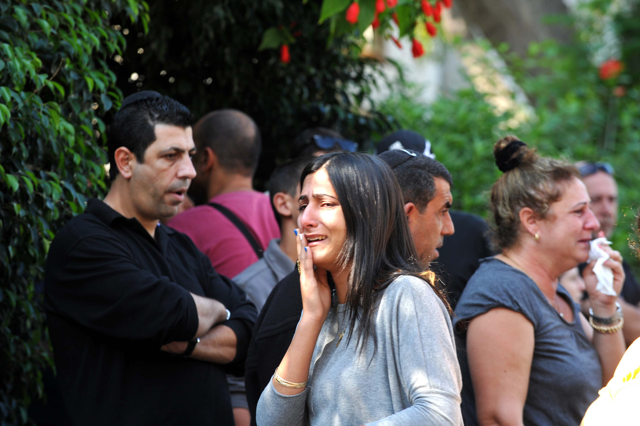 Photos by David Katz / The Israel Project